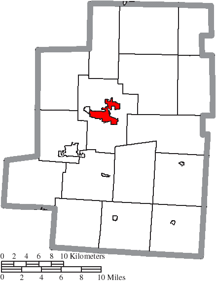 Map of the municipal and township boundaries of Morrow County, Ohio, United States, as of the 2000 census, with the location of the village of Mount Gilead highlighted. Township borders are shown only in unincorporated areas in order to differentiate incorporated and unincorporated areas more clearly.